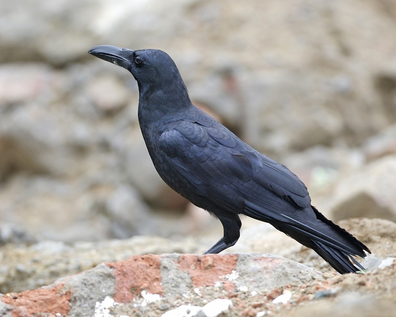 Eastern Jungle Crow Corvus levaillantii, Kazaringa, Assam, India